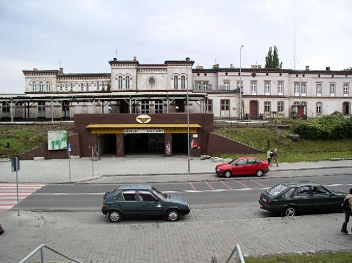 Main train station in Żary